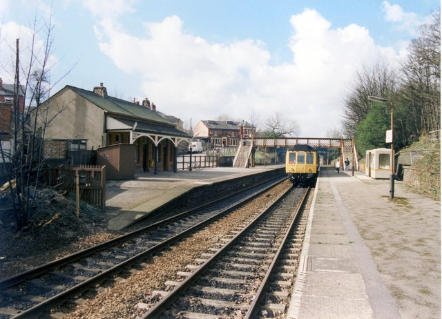 Reddish North railway station Original description: Reddish north station